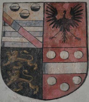 Coats of arms of Jeanne Chaudrier (1487-1544) on a wall of the château de la Possonnière (Coutures-sur-Loir).